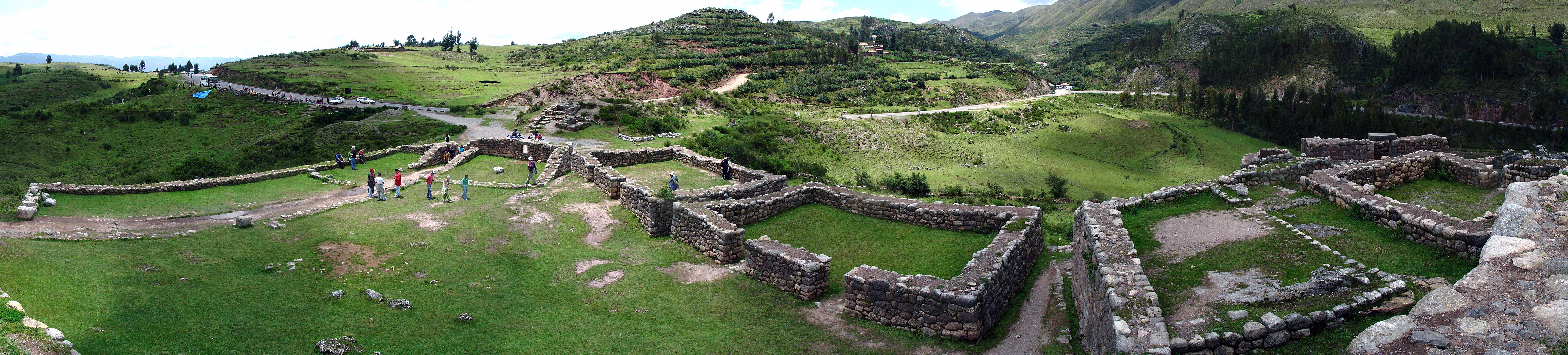 Pucapucara inca ruins in Cusco, Peru